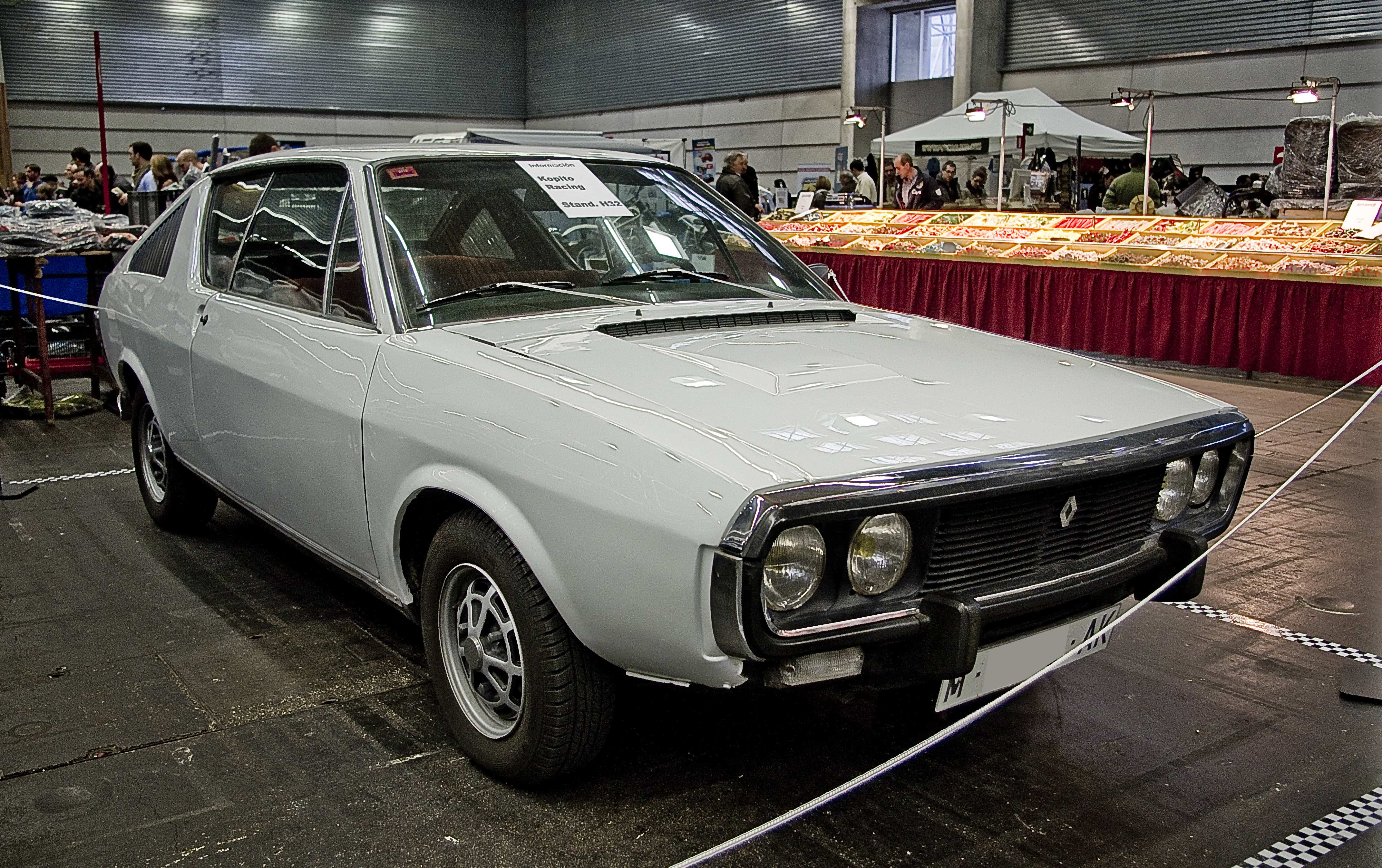 Not a common sight on our roads, these were not sold officially, and if they were, they surely sold a handful of them. A shame really, these and the 15 are very nice cars.